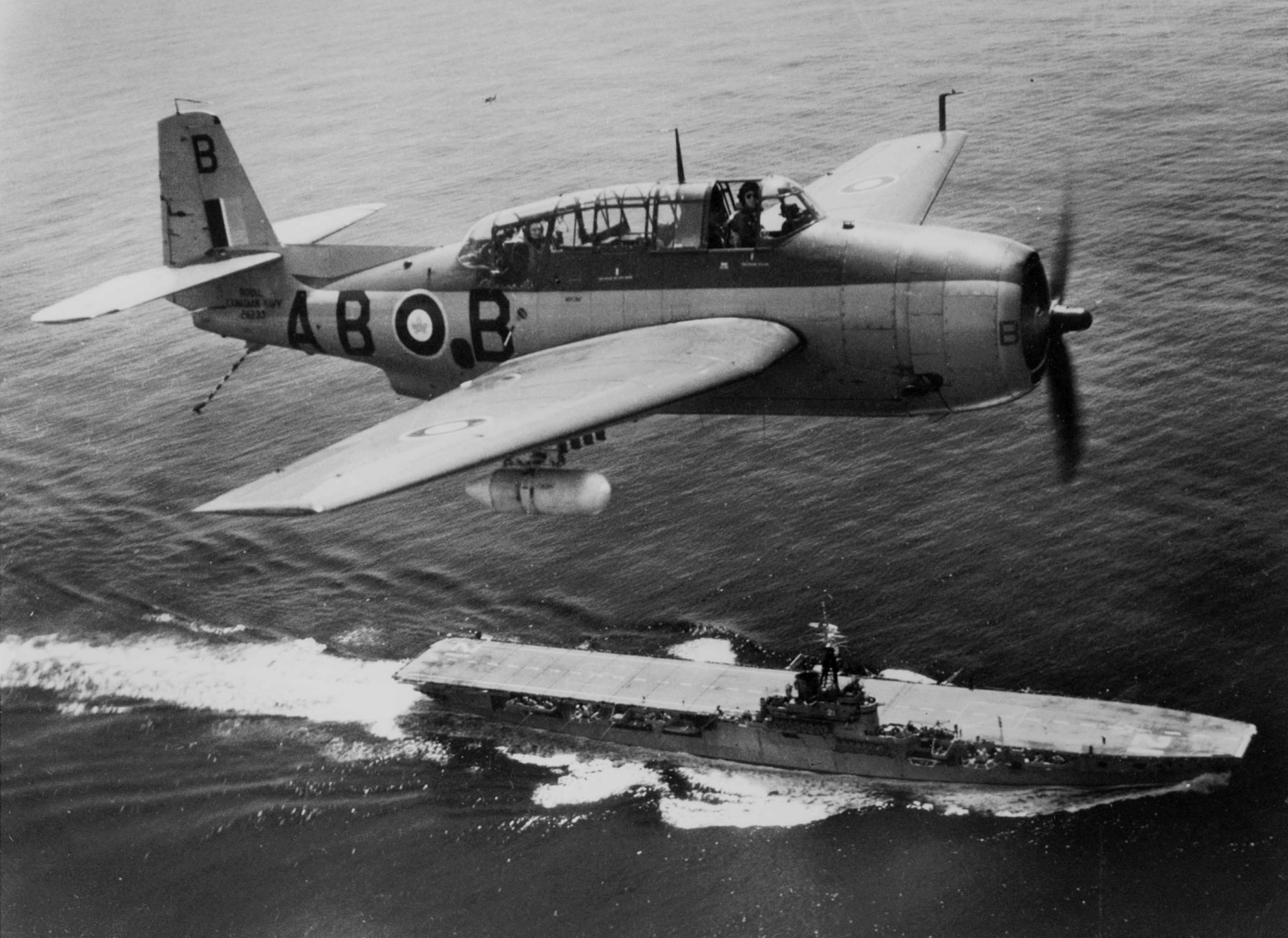 A Grumman Avenger AS.3 aircraft flying past the Canadian aircraft carrier HMCS Magnificent (CVL 21), circa 1953.